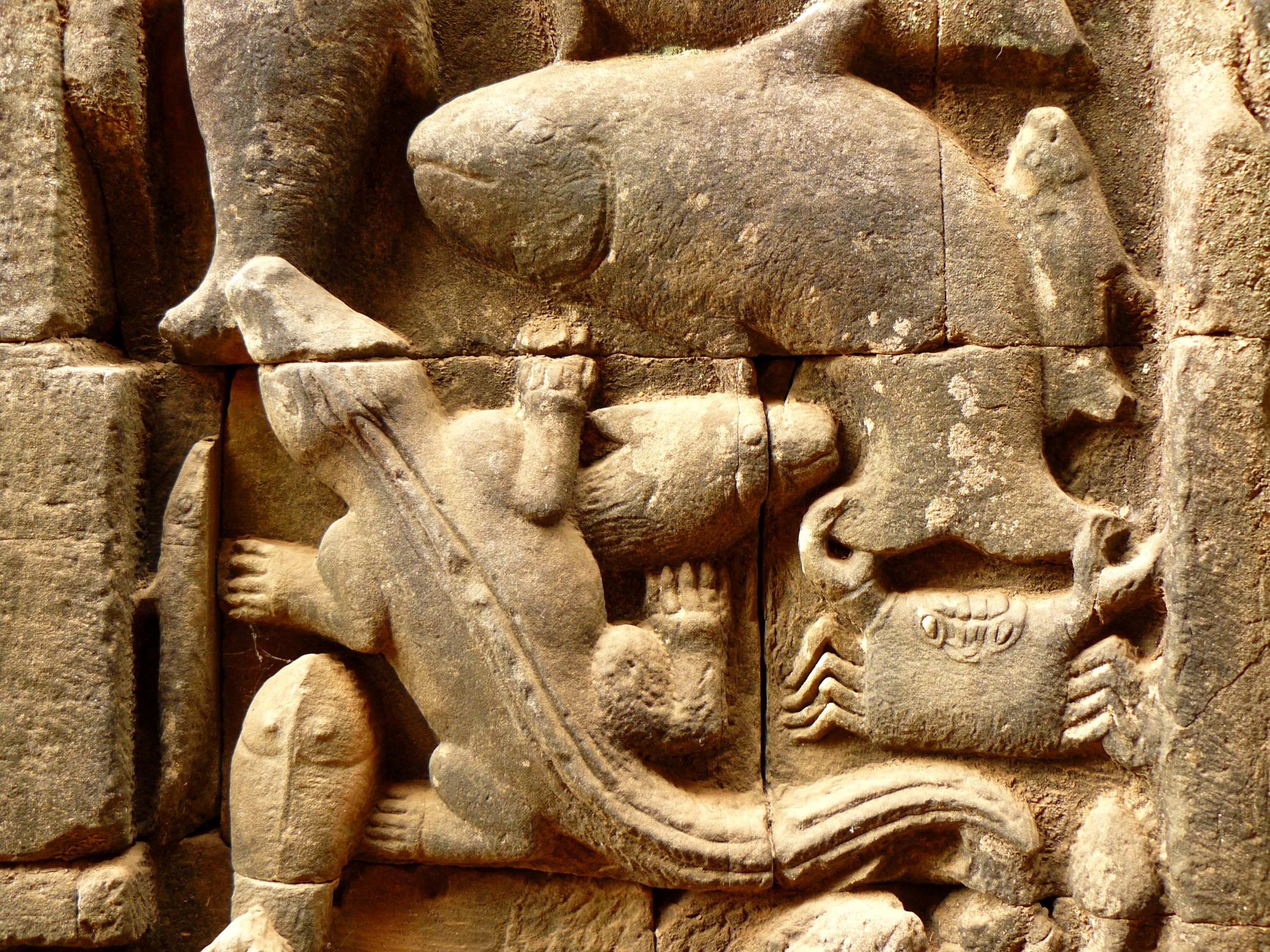 Terrace of the Leper King, Cambodia